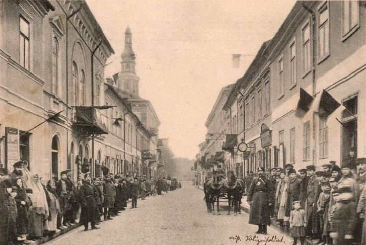 Rwańska Street, Radom, Poland